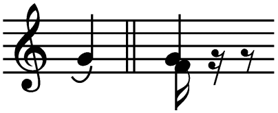 notation and execution of the "cauda" ornament